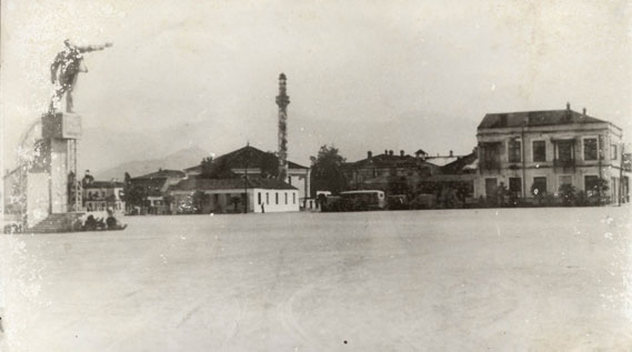 Aziziye mosque in Batumi, Georgia (now does not exist).